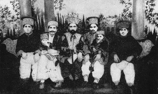 The Talpur Princes of Mirpurkhas Sitting left-to-right: Mir Ali Muhammad Khan Talpur Mir Muhammad Hassan Khan Talpur (with his son) Mir Ali Murad Khan Talpur-II [the eldest son of Mir Fateh Khan Talpur -II and the Pagaro (center)], Mir Ghulam Shah Khan Talpur (with his son), and Mir Shah Muhammad Khan Talpur.